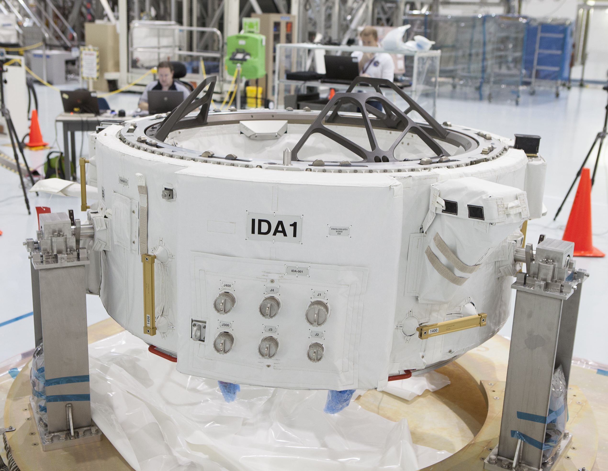 Engineers in the Space Station Processing Facility measure specifics of the International Docking Adapter. The adapter will be launched on CRS-7 and placed on the International Space Station and used by future crewed vehicles when they arrive at the orbiting laboratory.